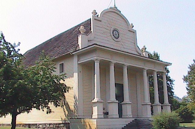 Sacred Heart Church in Old Mission State Park in Idaho in the United States. Located where the Coeur d'Alene River enters into Lake Coeur d'Alene, the Coeur d'Alene Mission of the Sacred Heart was established in 1843 by the Roman Catholic Church as a Christian missionary outpost. The church was built in 1858, and designed by Father Antonio Ravalli. No nails or metal pieces were used in its construction. The mission later relocated near the modern town of De Smet, Idaho, at which time this structure became known as "Cataldo Mission" or "Old Mission". The structure and outbuildings were added to the U.S. National Register of Historic Places on October 15, 1966. The structure and outbuildings were made a U.S. National Historic Landmark on July 4, 1961.